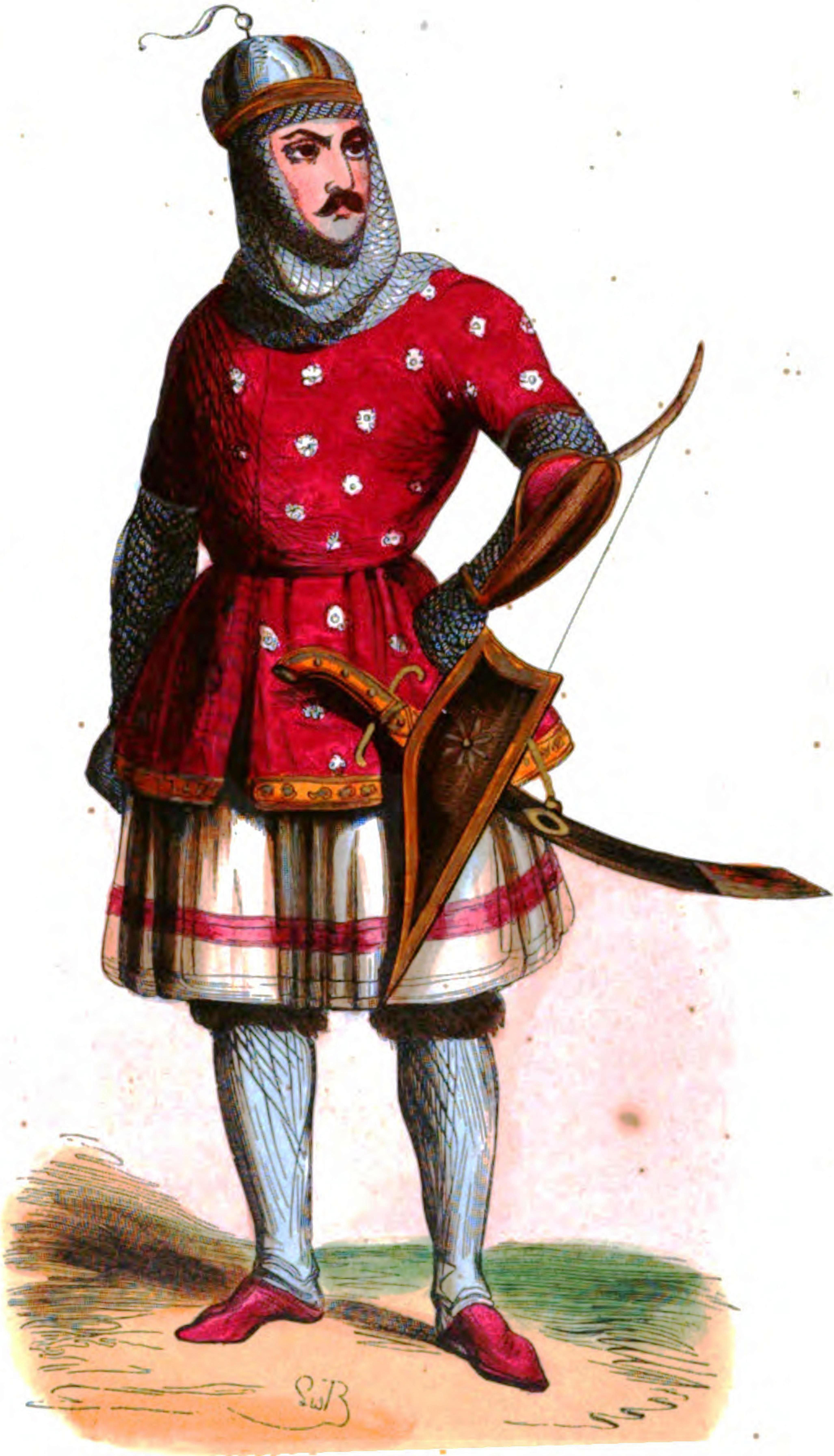 Auguste Wahlen, Moeurs, usages et costumes de tous les peuples du monde, Volume 1. Publisher La Librairie historique-artistique, 1843